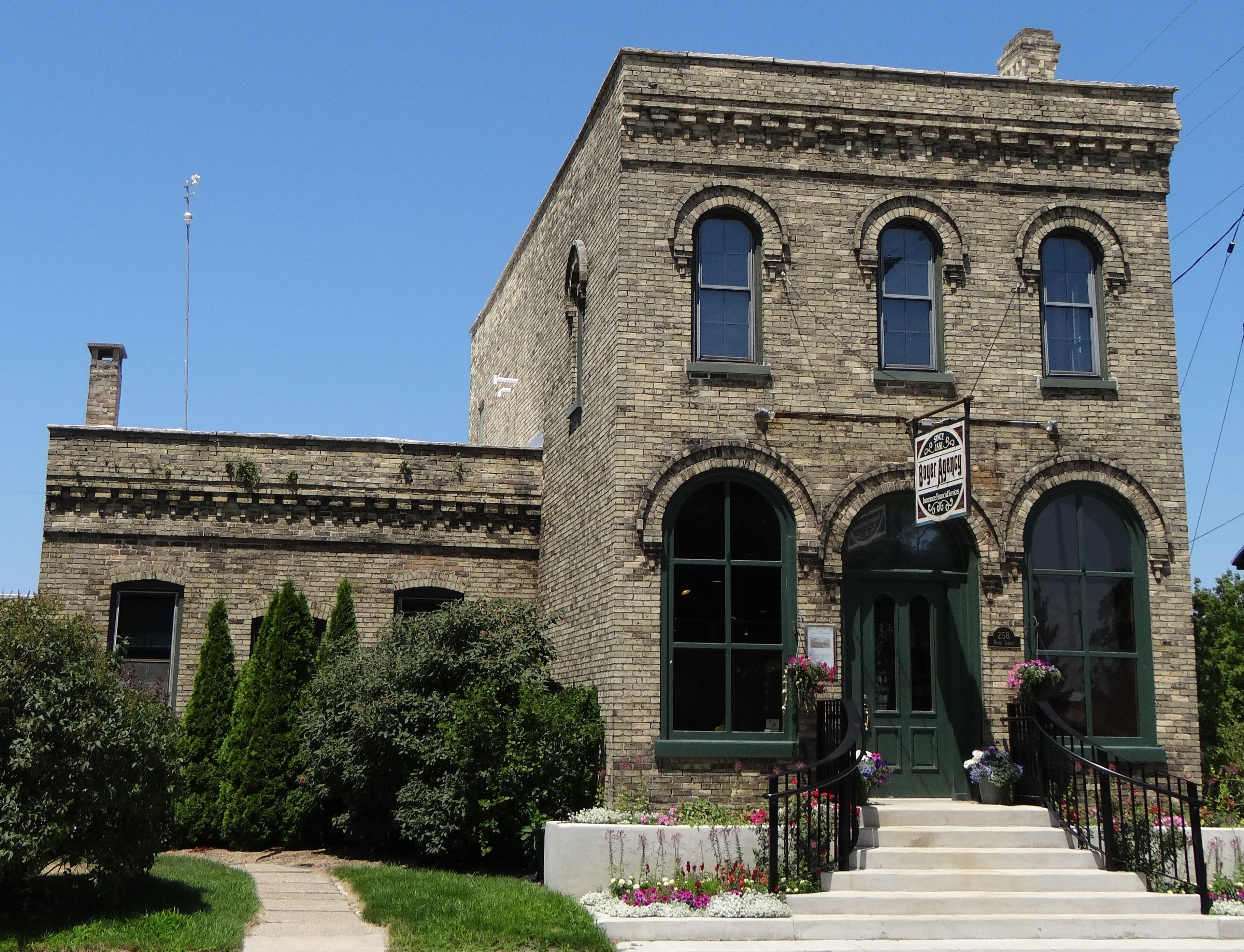 The Jones Building, 258 River Street, Manistee, Michigan. Built in 1872.